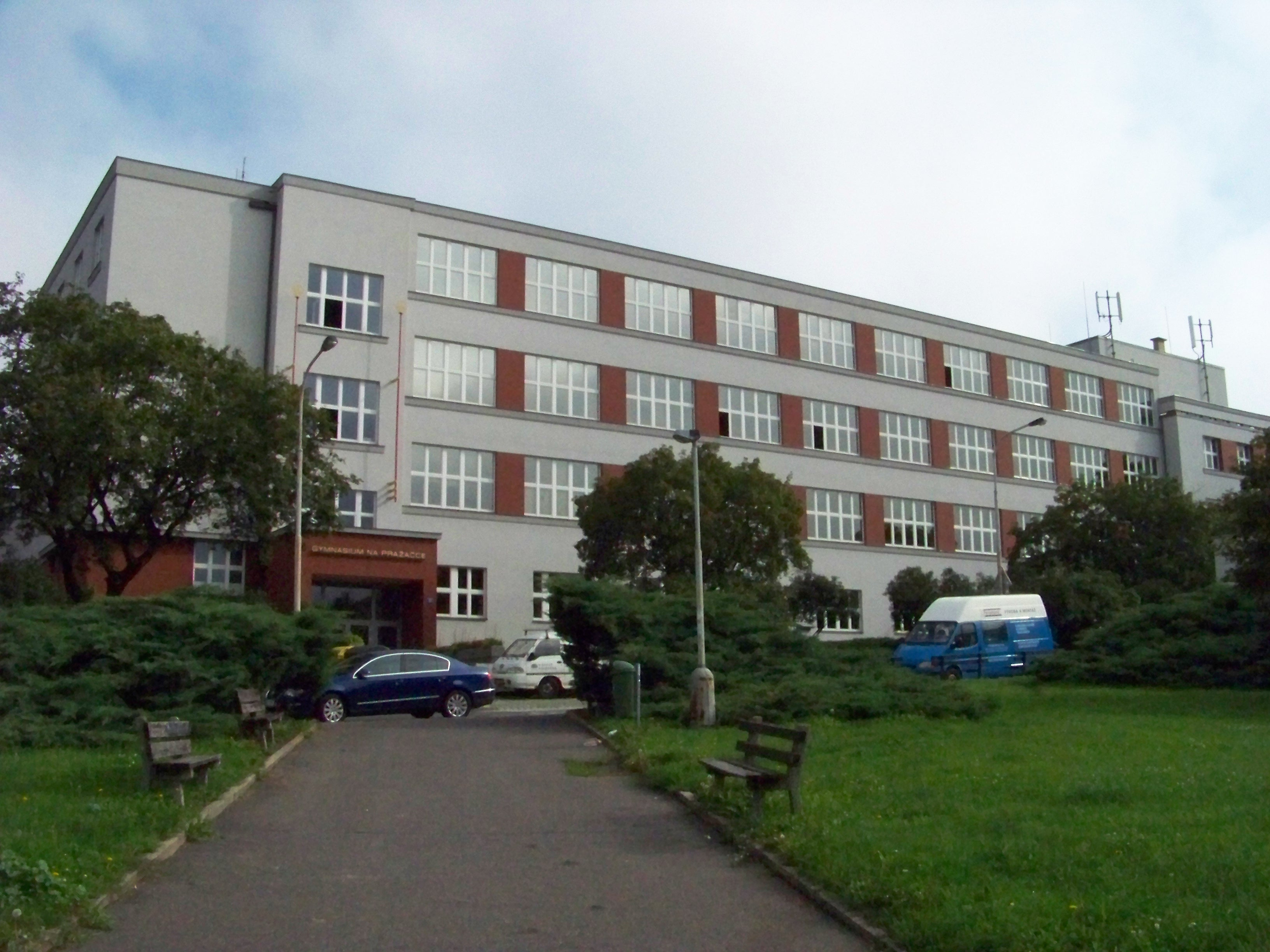 Prague-Žižkov, the Czech Republic. Nad Ohradou street, Gymnázium Na Pražačce. - OpenStreetMap(Info)